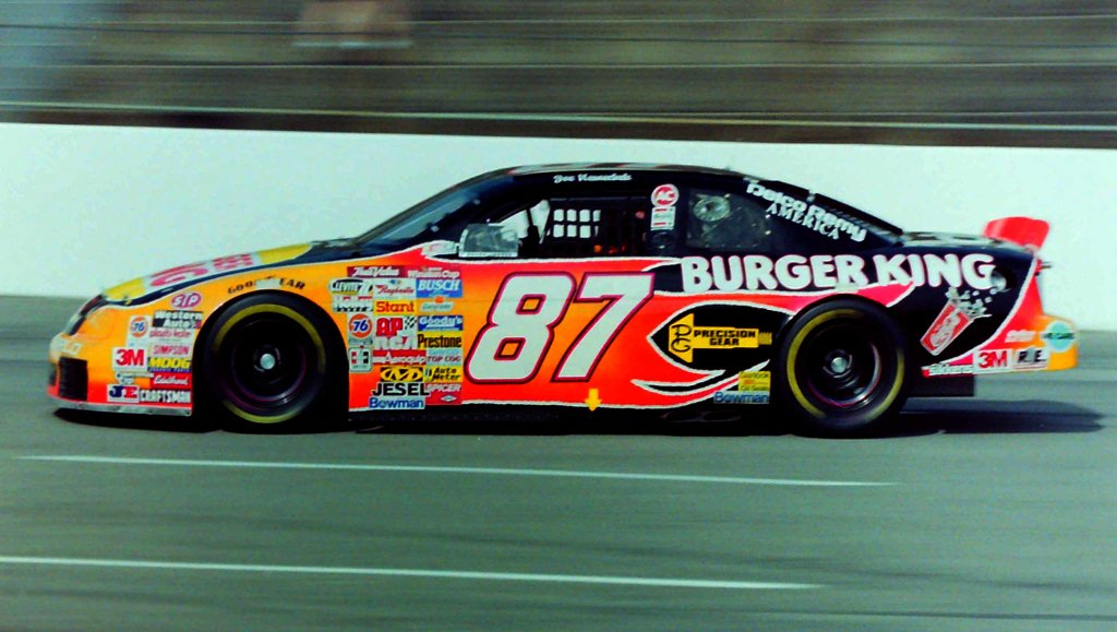 Joe Nemechek drives the No. 87 Burger King Chevrolet during a 1996 NASCAR Winston Cup Series race.